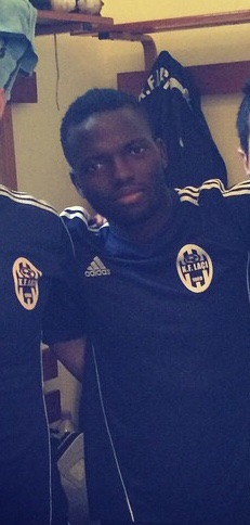 James Segun Adeniyi with Albanian club KF Laçi.